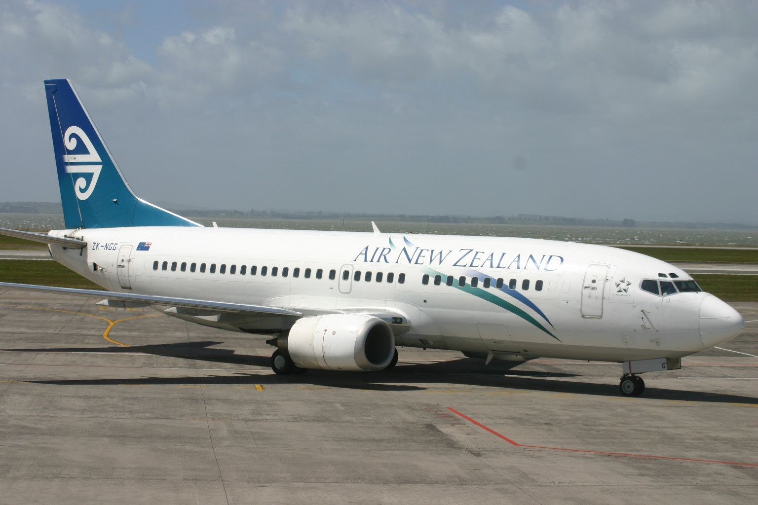 At Auckland